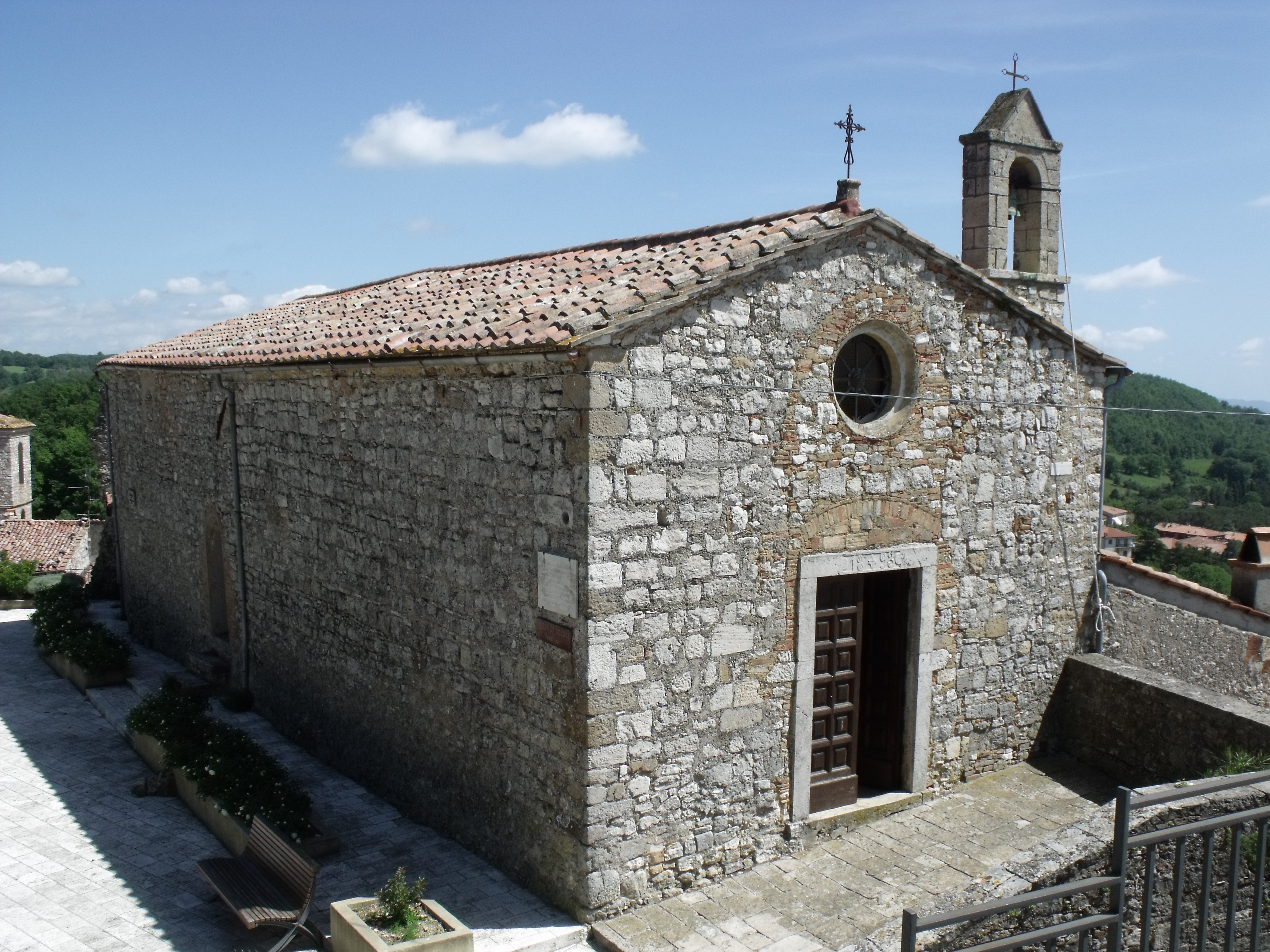 Church of Santa Croce in Semproniano, Maremma, Province of Grosseto, Tuscany, Italy